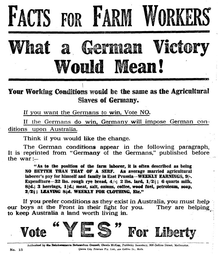 "Facts for Farm Workers", a campaign poster advocating a "Yes" vote at the Australian plebiscite, 1917.